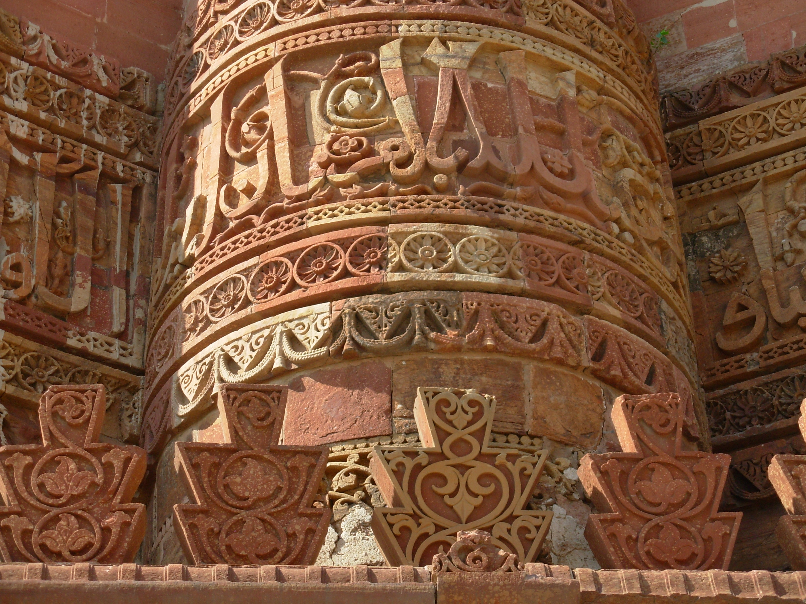 Decorative motives above the entrance to Qutb Minar, Delhi.